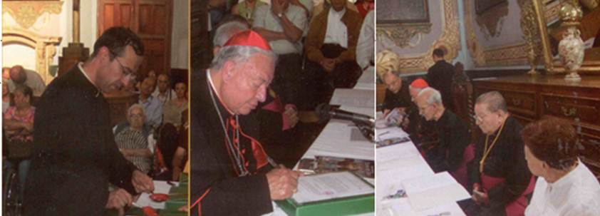 Closure of the Diocesis Phase